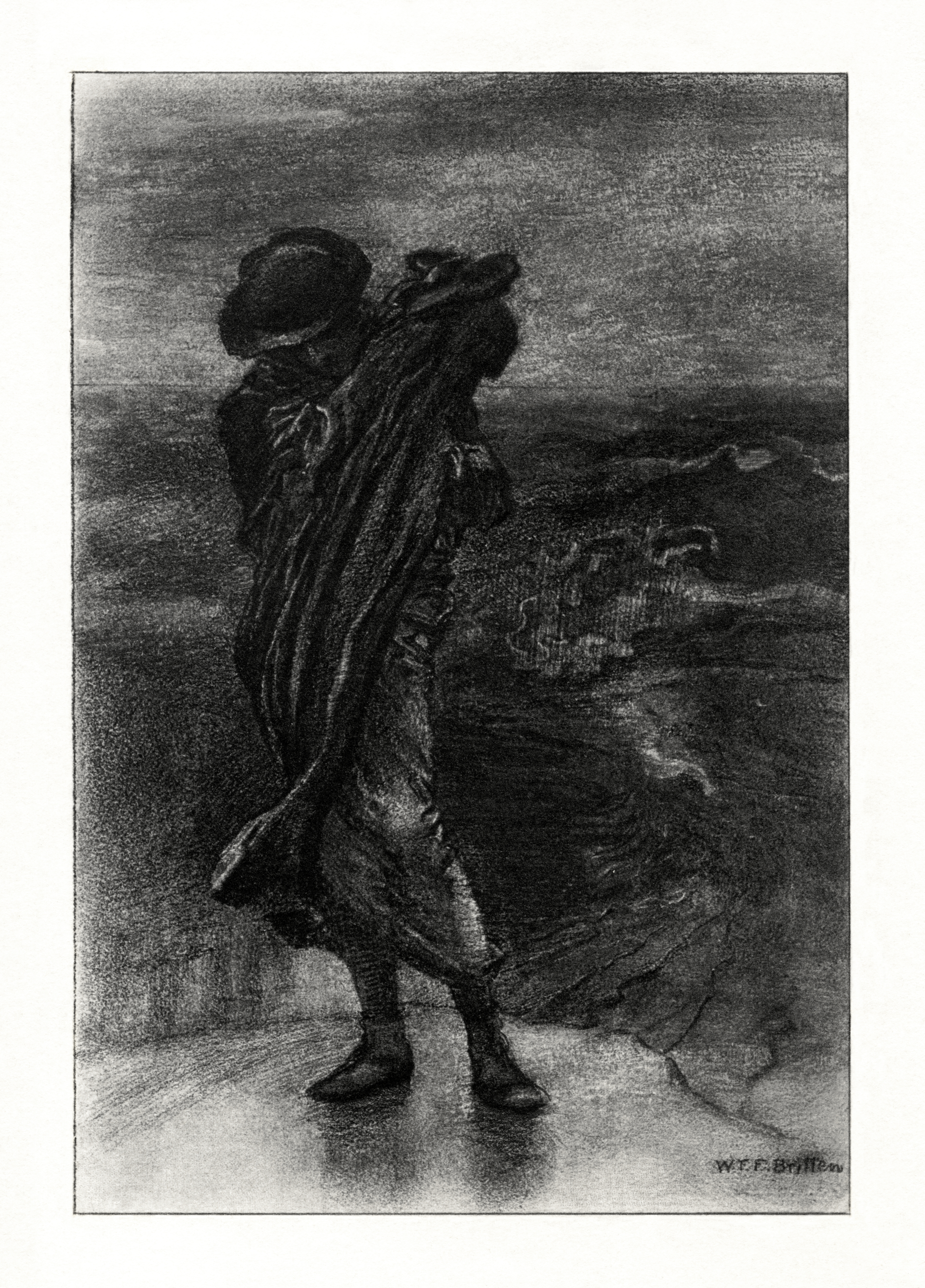 Illustration to Tennyson's "Break, Break, Break" by W. E. F. Britten: Break, break, break, On thy cold gray stones, O Sea! And I would that my tongue could utter The thoughts that arise in me. O, well for the fisherman's boy, That he shouts with his sister at play! O, well for the sailor lad, That he sings in his boat on the bay! And the stately ships go on To their haven under the hill; But O for the touch of a vanished hand, And the sound of a voice that is still! Break, break, break, At the foot of thy crags, O Sea! But the tender grace of a day that is dead Will never come back to me.